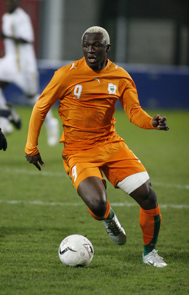 Ivorian player Arouna Koné during match Guinea vs. Côte d'Ivoire at Stade Robert Diochon, Rouen, France.